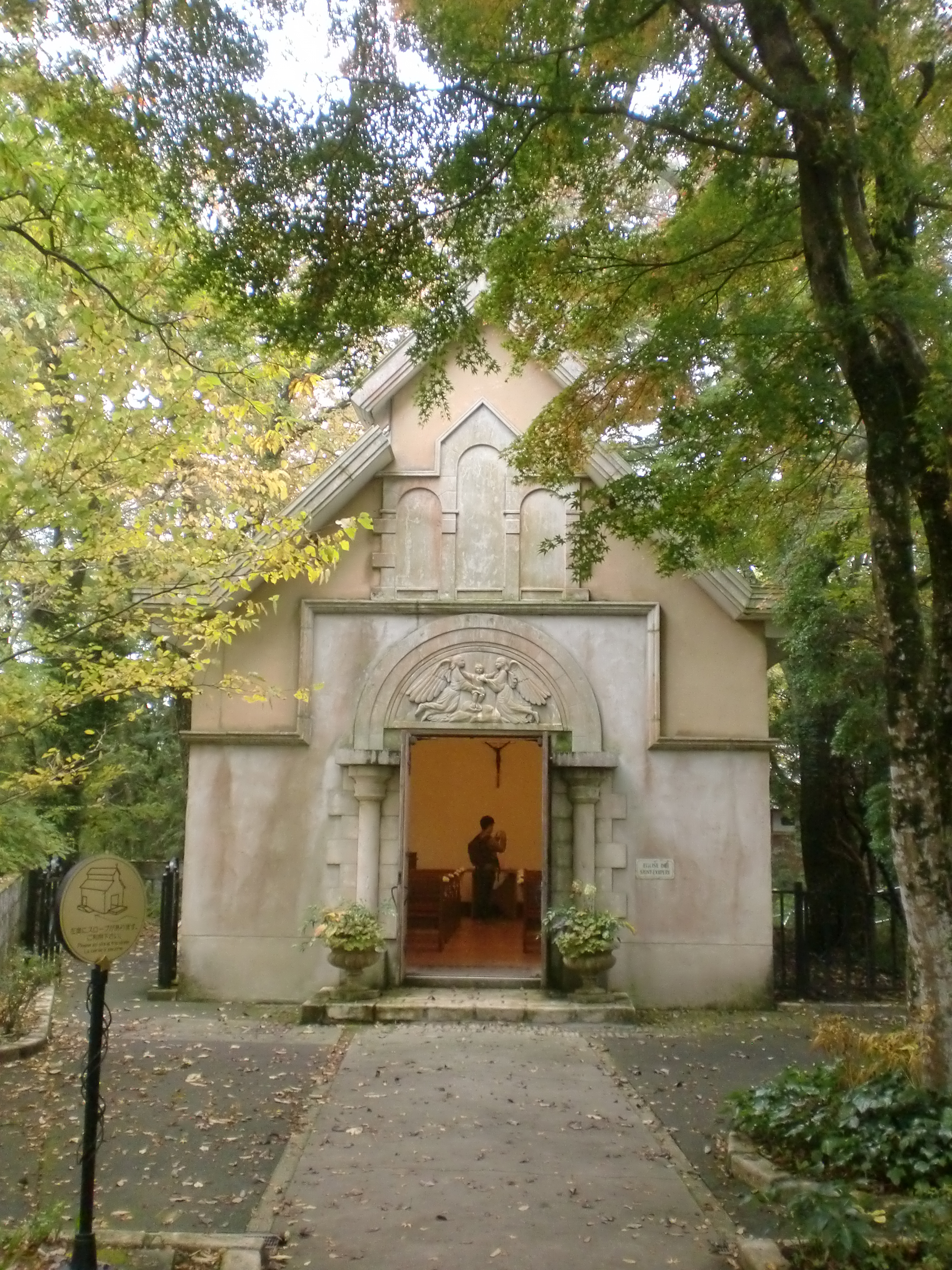 Musée du Petit Prince de Saint-Exupéry à Hakone